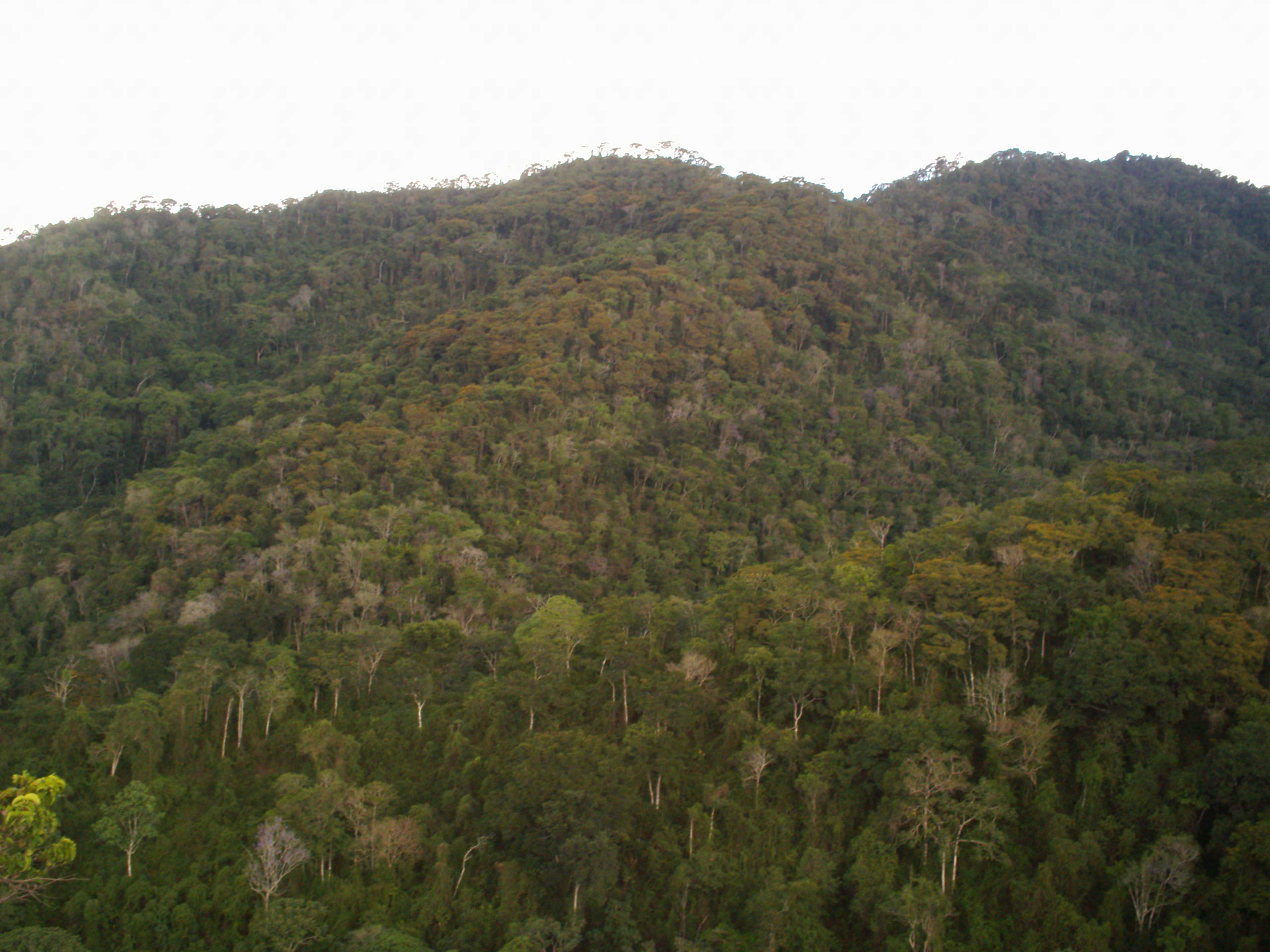 Figure 8. Forested area of center of the parish (ascent to Taica). Note the high density of vegetative cover of the area.